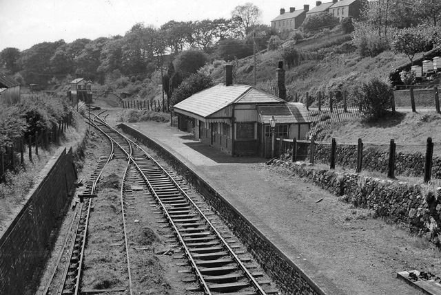 Brynamman West Station. View westward, towards Pantyfynnon; terminus of ex-Great Western branch from Pantyfynnon, closed to passengers 18/8/58, to goods (from Garnant 28/9/64). The station seems to have been still in good order in 1962.